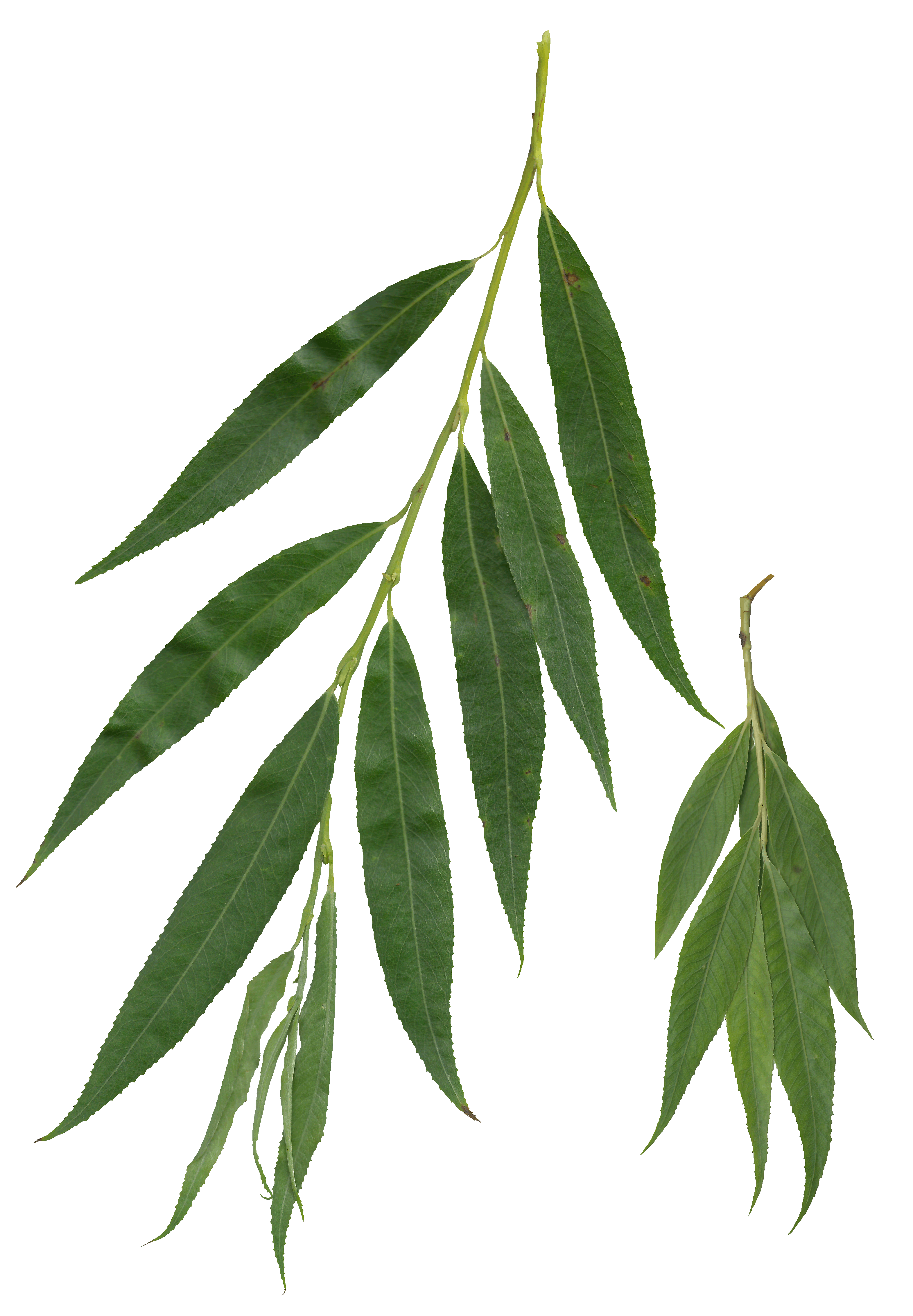 Salix alba leaves